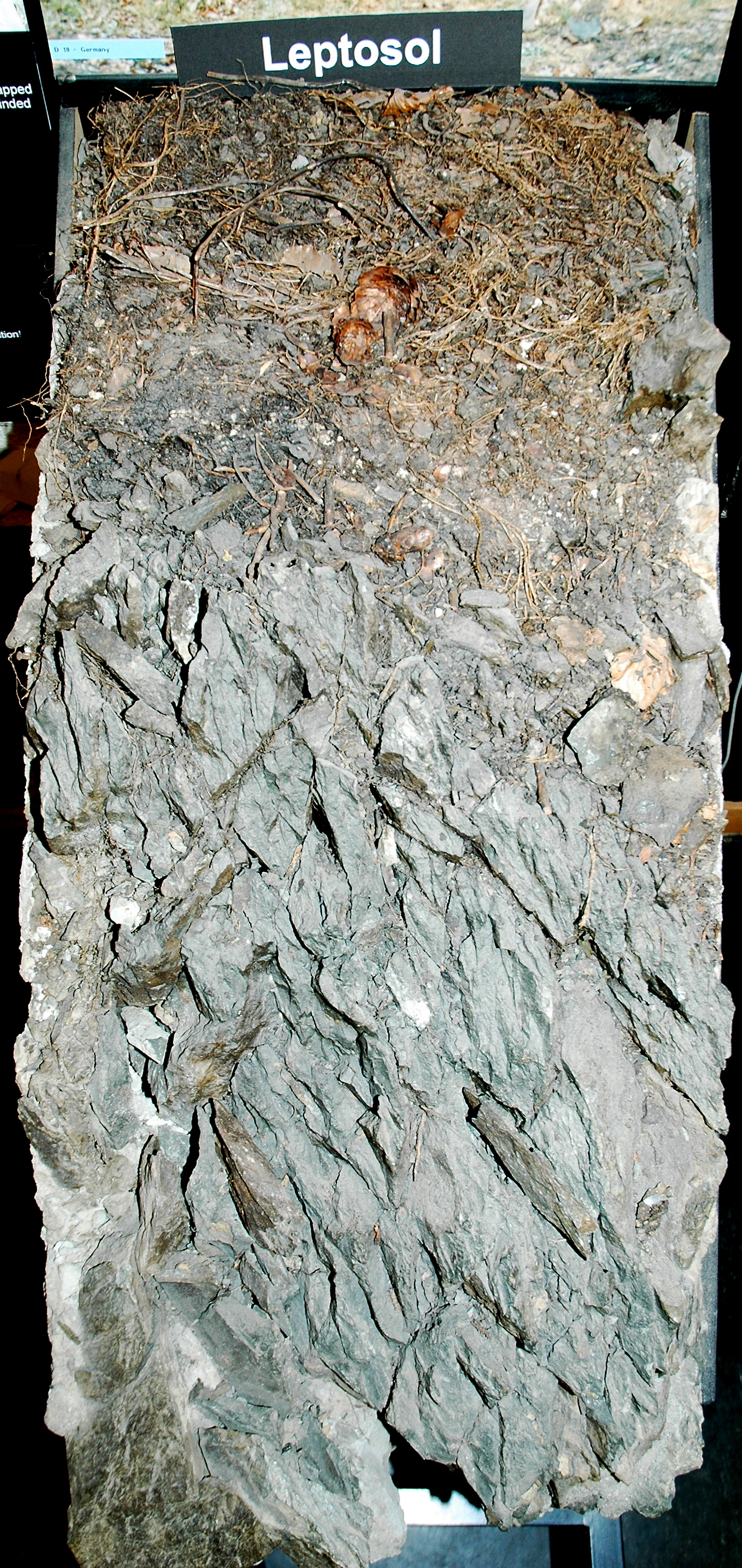 Soil profile of a Leptosol.